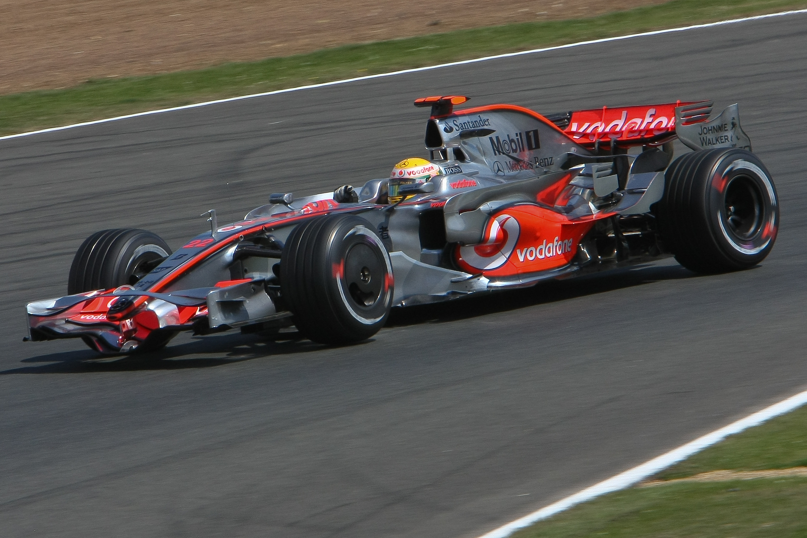 Lewis Hamilton driving for McLaren at the 2008 British Grand Prix.